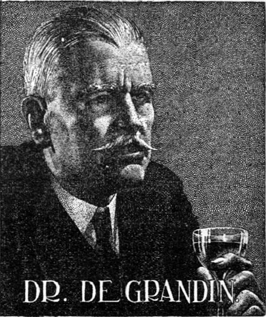 Portrait of Jules de Grandin, the main character of a series of supernatural detective stories by Seabury Quinn. Internal illustration from the pulp magazine Weird Tales (October 1937, vol. 30, no. 4, page 387).